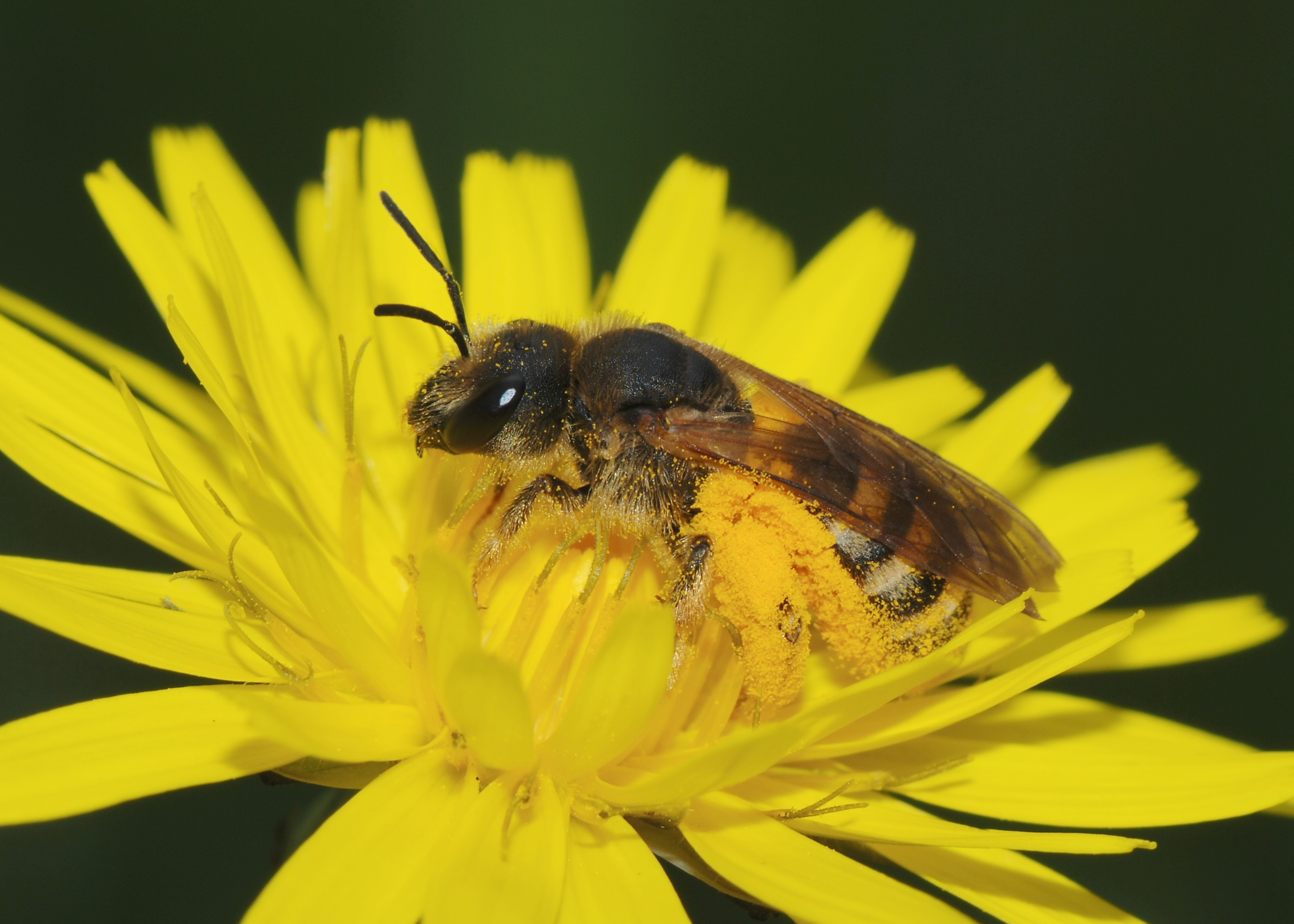 Bee of Halictus genus, possible Halictus scabiosae